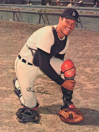 Professional baseball player Bill Freehan